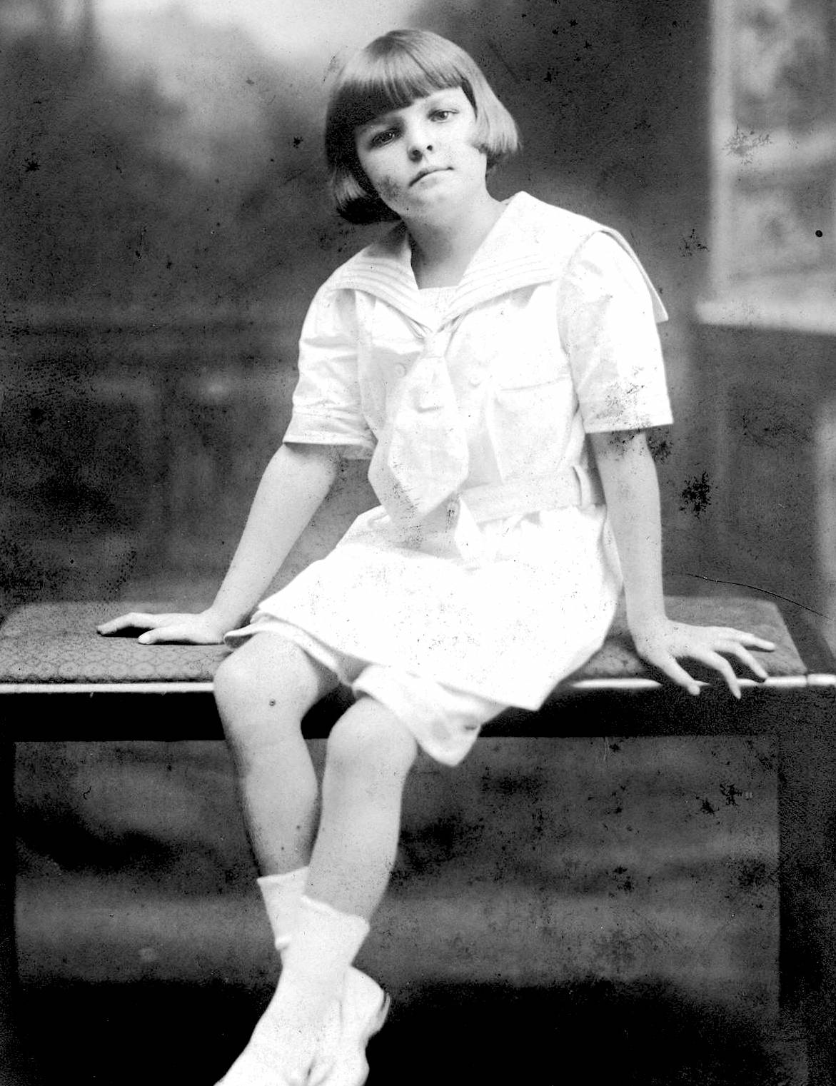 Mayo Methot, juvenile stage actor Subjects: children as actors